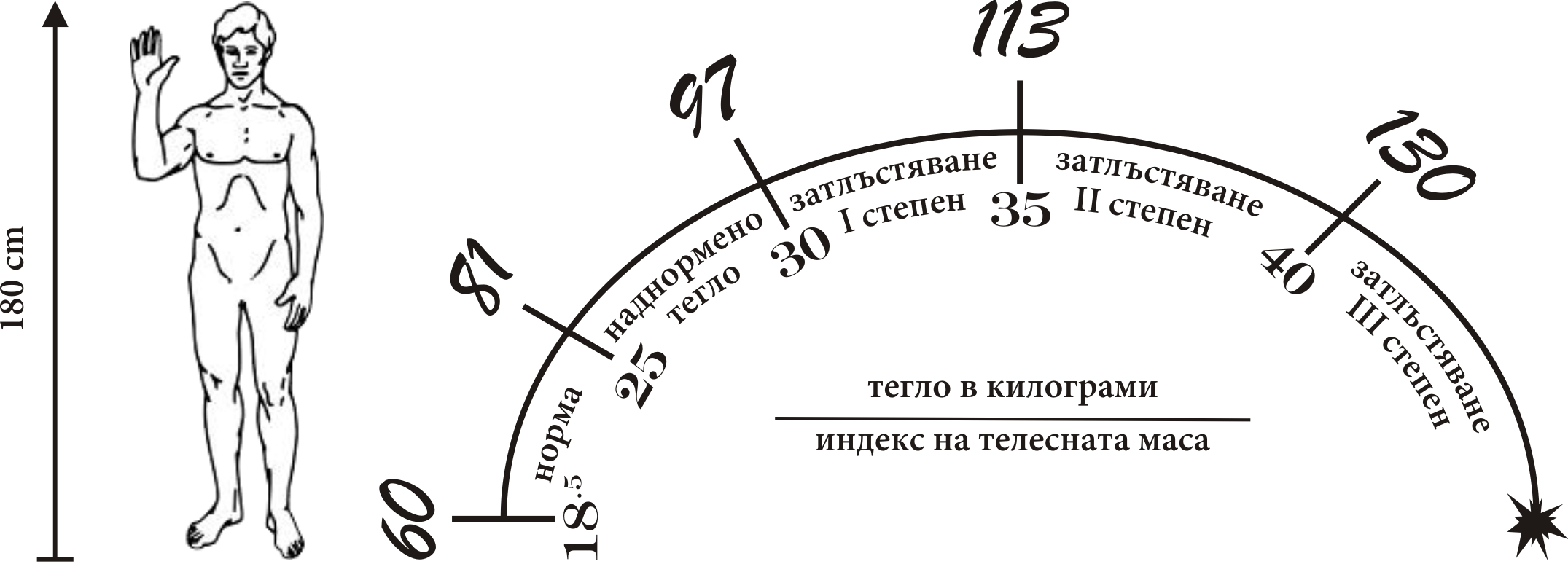 Normal weight (in kilograms), overweight and grades of obesity (I, II and III) for 180 cm. height.